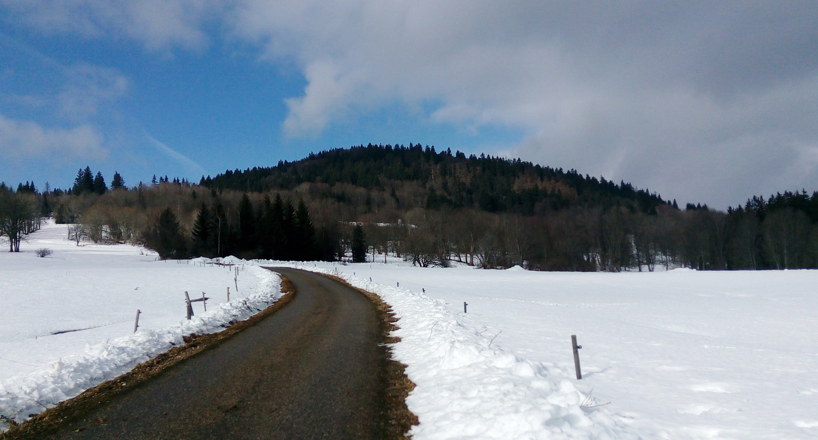 Žlebský vrch, a mountain in the Bohemian Forest, south Bohemia, Czechia.